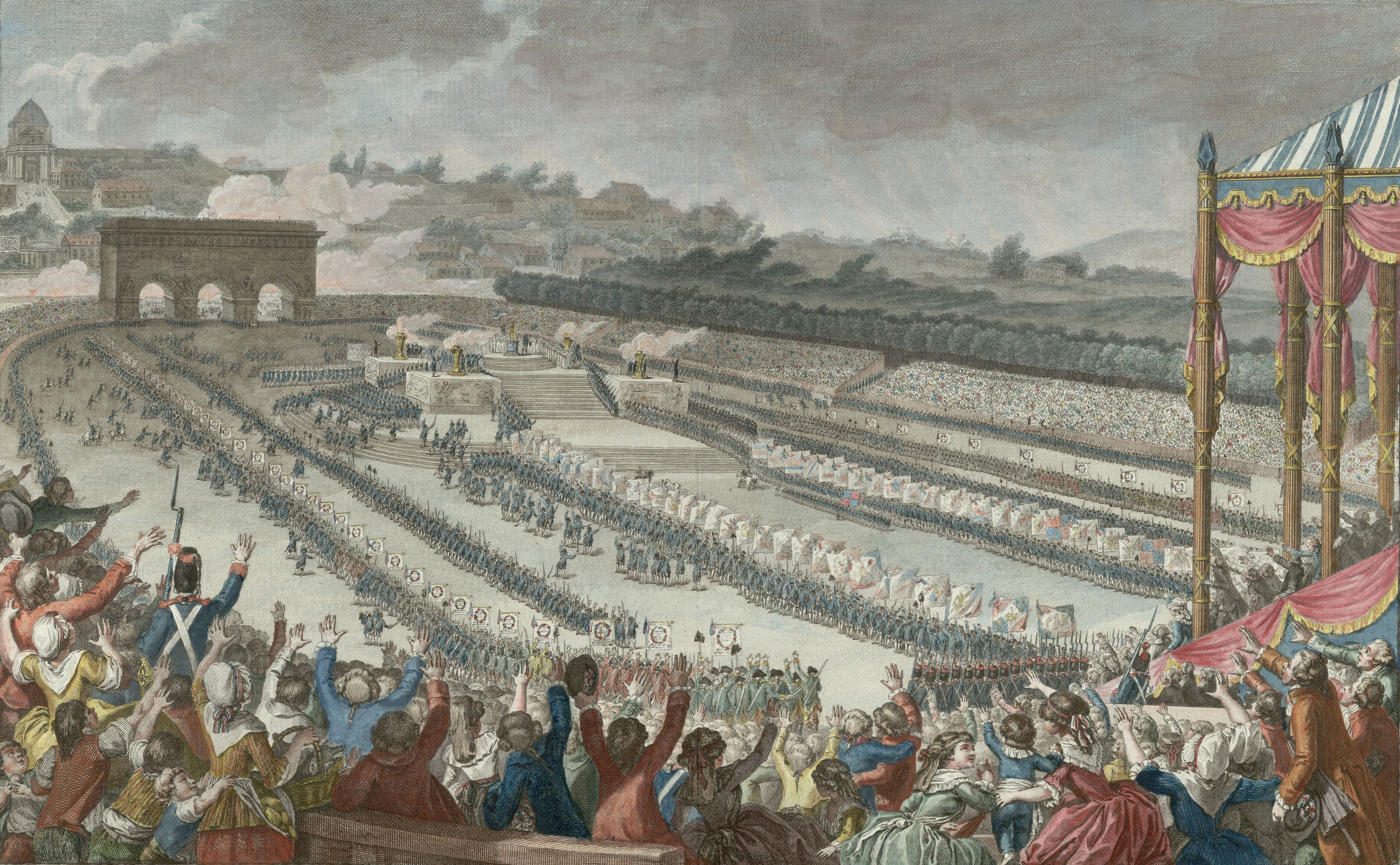 held in the Champ de Mars, in July 14, 1790. Woodcut by Helman, from a picture by C. Monet, Painter of the King.